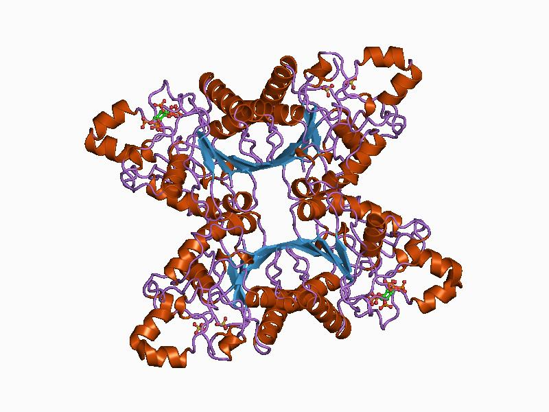 Cartoon representation of the molecular structure of protein registered with 1bq3 code.